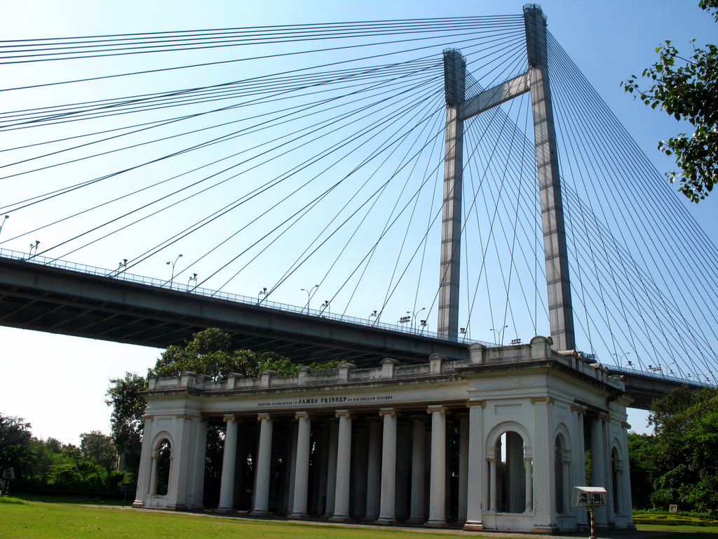 nn